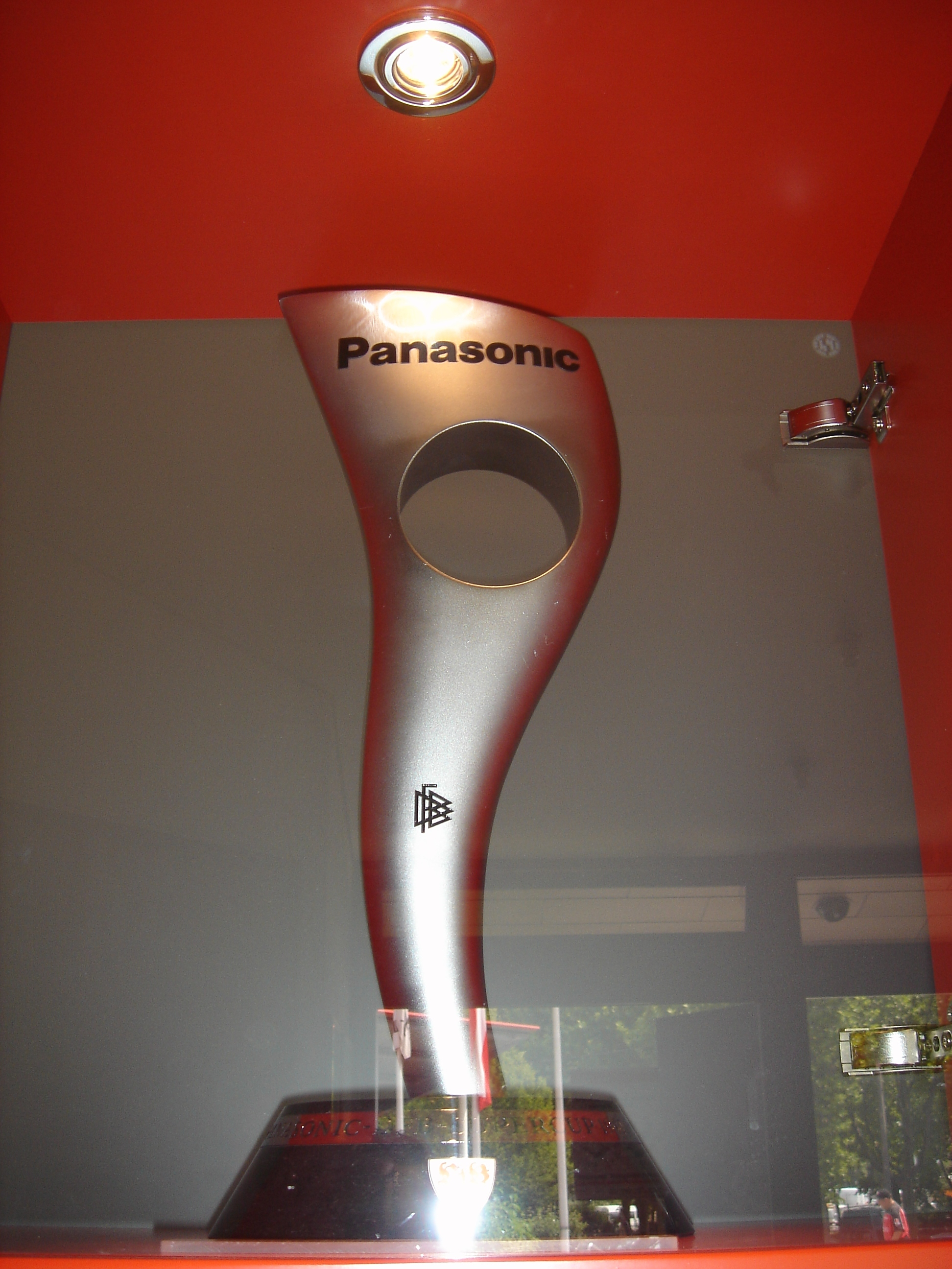 Sponsor's trophy of the 1992 German Supercup won by VfB Stuttgart